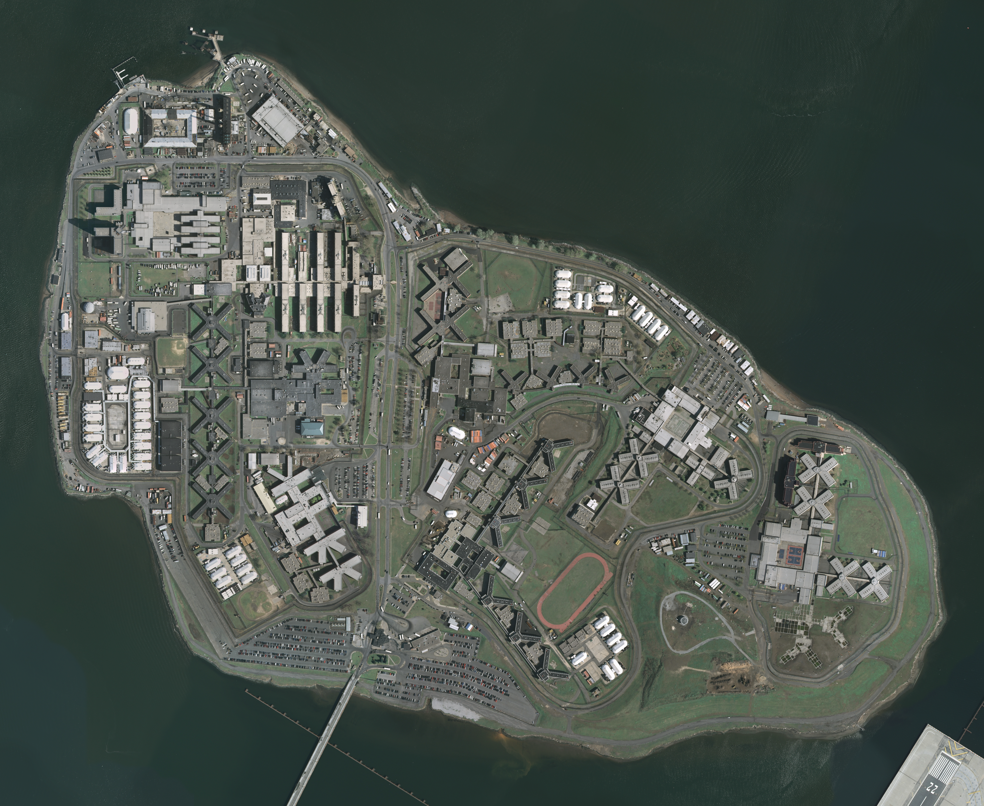 Orthophoto of Rikers Island.